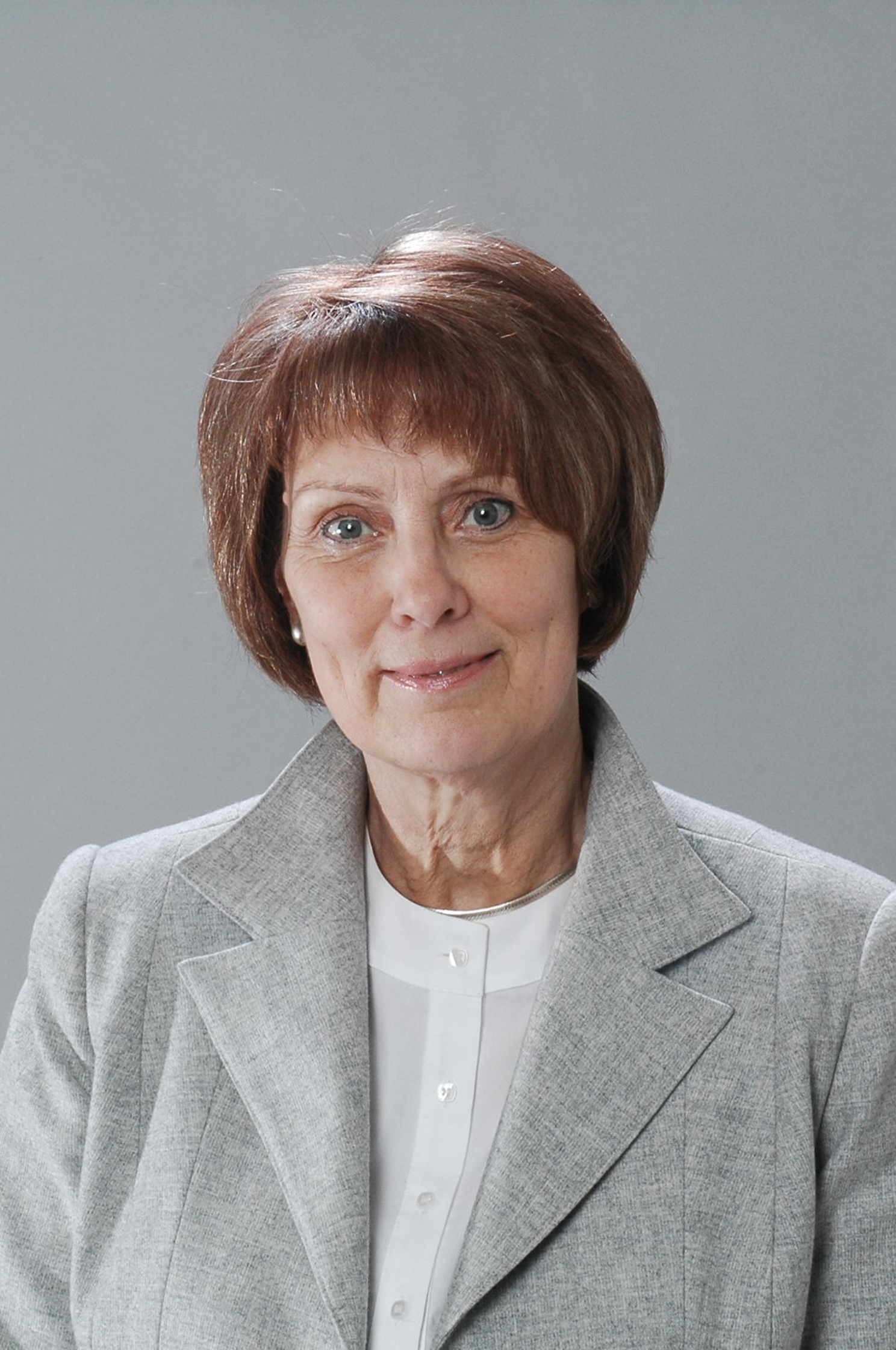 Deputy of the 9th Saeima and actress Ausma Ziedone-Kantāne